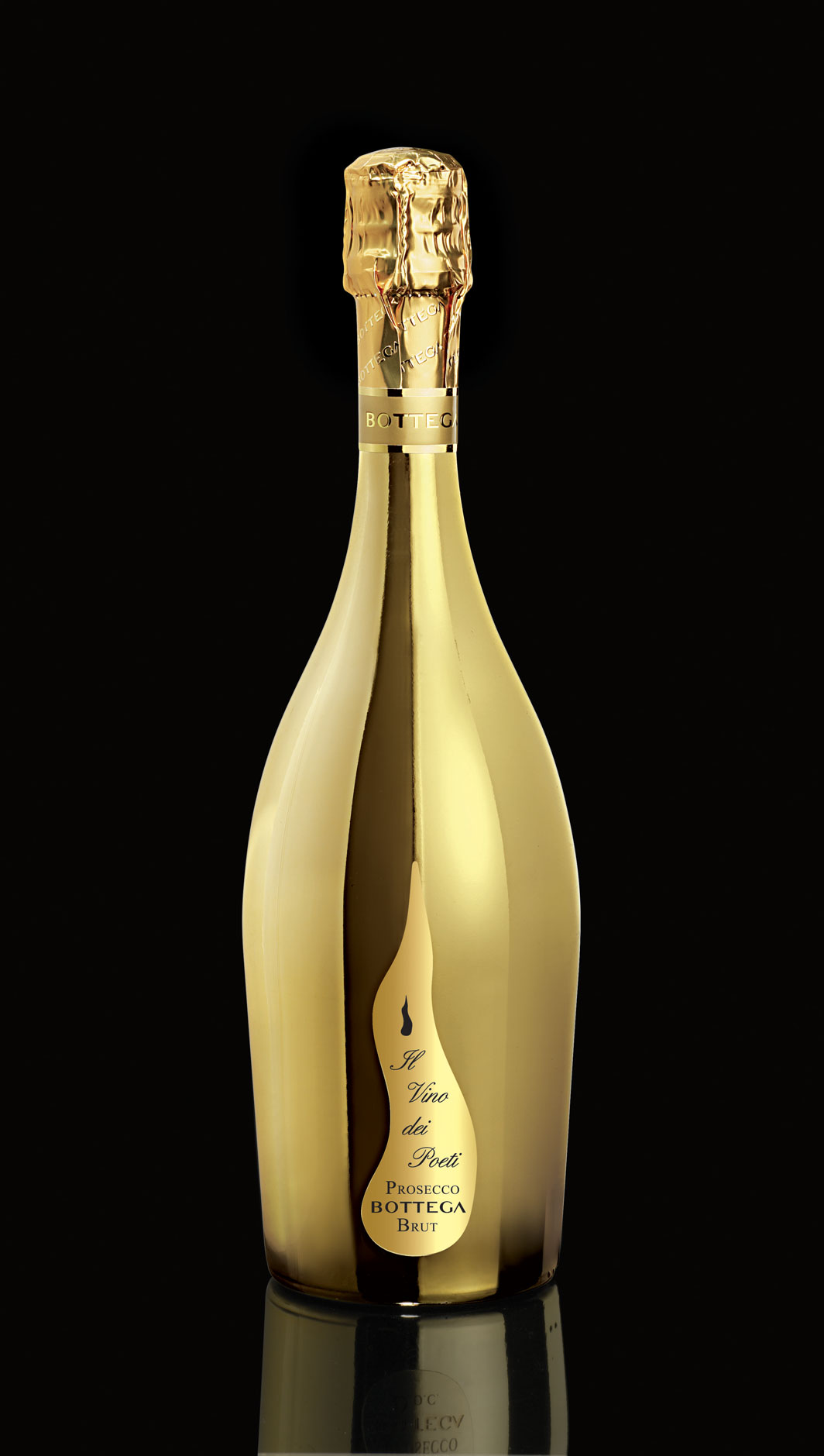 Prosecco Gold Bottle